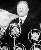 US President Herbert Hoover with radio microphones.